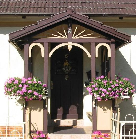 Entrance in Neschholz. The village Neschholz is an incorporated part of the town Belzig in the district Potsdam Mittelmark, state Brandenburg, Germany. Belzig appertains to the natural preserve Naturpark Hoher Fläming.